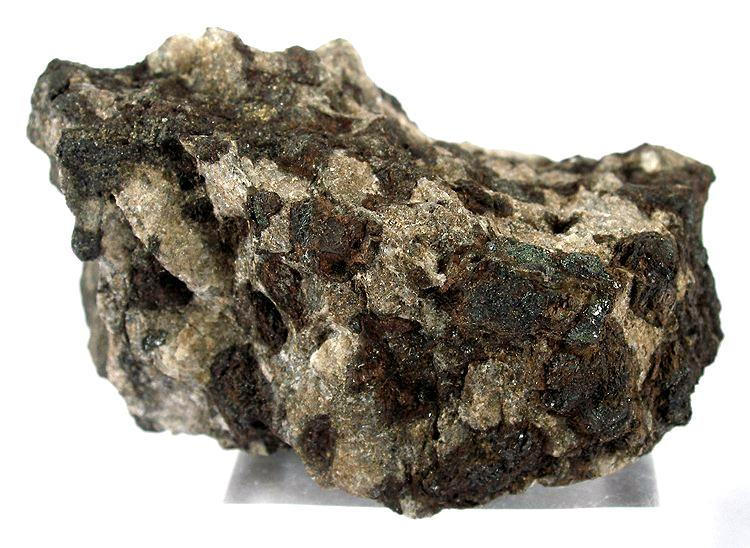 Manganosite Locality: Långban, Filipstad, Värmland, Sweden (Locality at ) Size: 5.8 x 3.7 x 3.5 cm. Manganosite is a rare manganese oxide and usually is found as irregular grains or masses. This very rich, old-time specimen from Langban, Sweden features rare octahedrons, subhedral crystals and massive manganosite. The fresh, broken emerald-green crystals darken to brown or black upon exposure. This is a very rich, very uncommon example of the rare species and world-famous locale. Ex. Dennis Mullane Collection and accompanied by an older, faded Burminco label from the 1950s or 1960s.